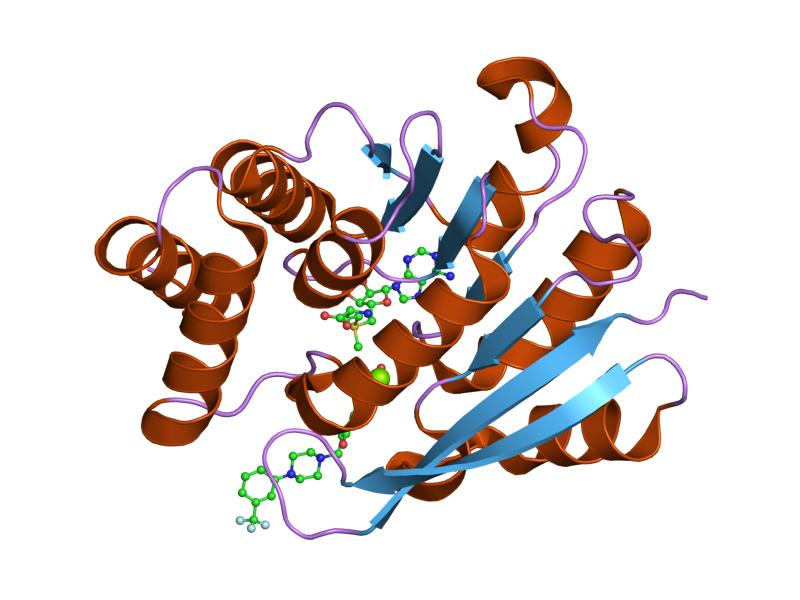 Cartoon representation of the molecular structure of protein registered with 1h1d code.